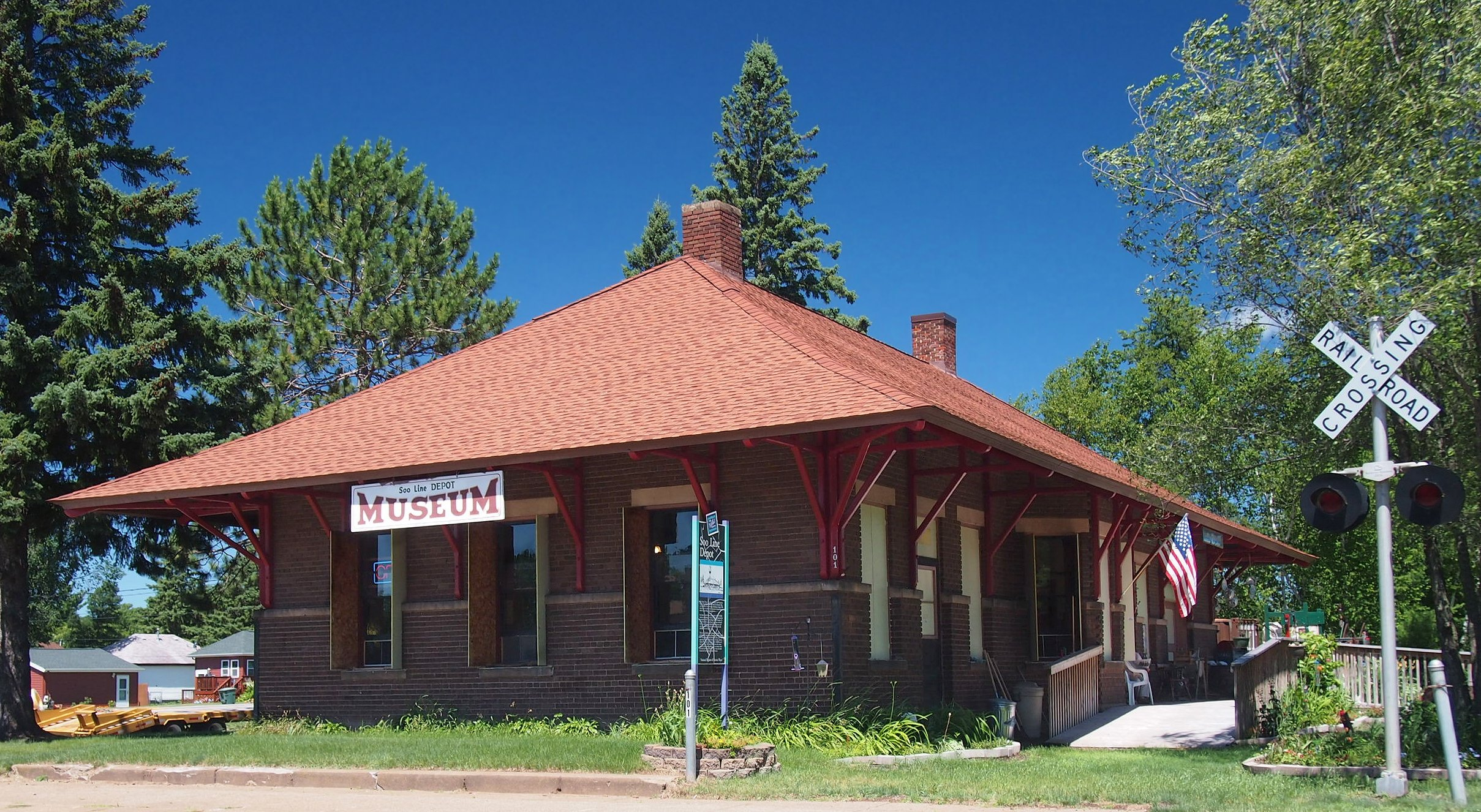 Soo Line Depot Museum, 101 1st St NE, Crosby, Minnesota, USA. Viewed from the south-southeast.